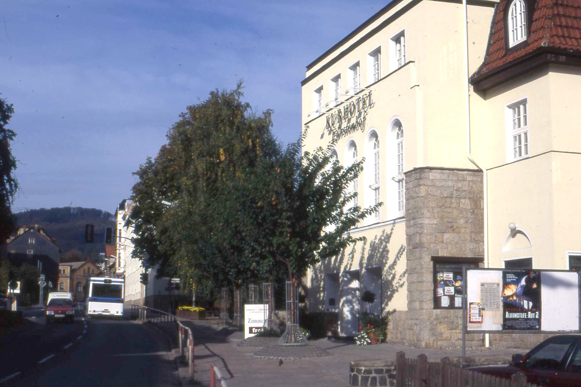 Already western vehicles are dominate the streets. A pavement advertising board seems to be advertising a film called Alarmstüfe : Rot 2 which appeared in english language version as Under Siege 2 - Dark Territory. Over 5 years previously, this building was in use as a cinema . The brochure of the hotel is found here Built 1895 . The Cinema had 665 seats, opened in 1920 originally and finally closed in 2003 . THE space was obviously reallocated within the Hotel and Wellness centre.